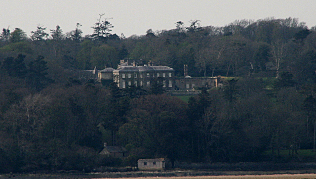 Bodorgan House View of Bodorgan House taken from across the river